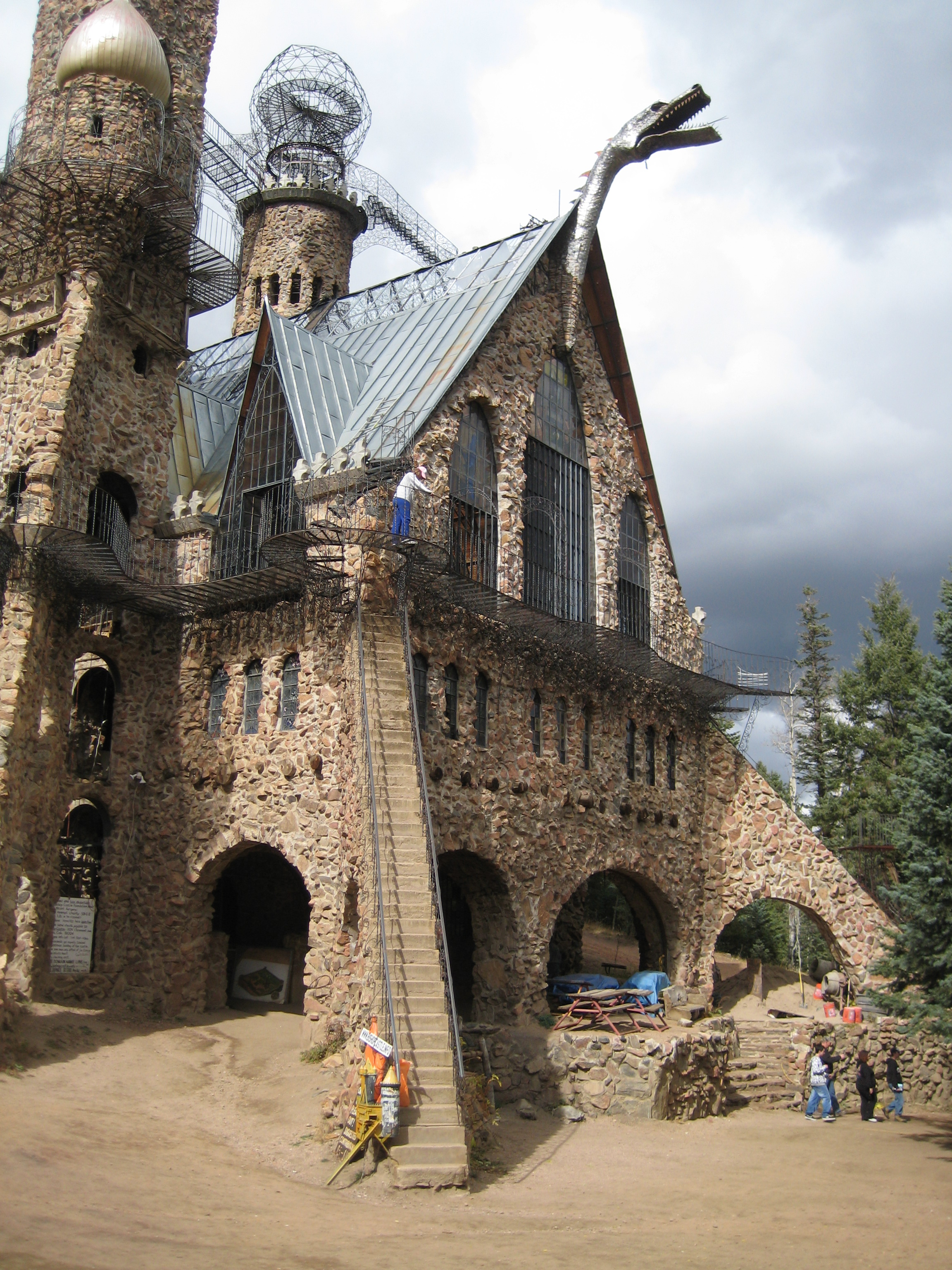 Bishop Castle, Colorado